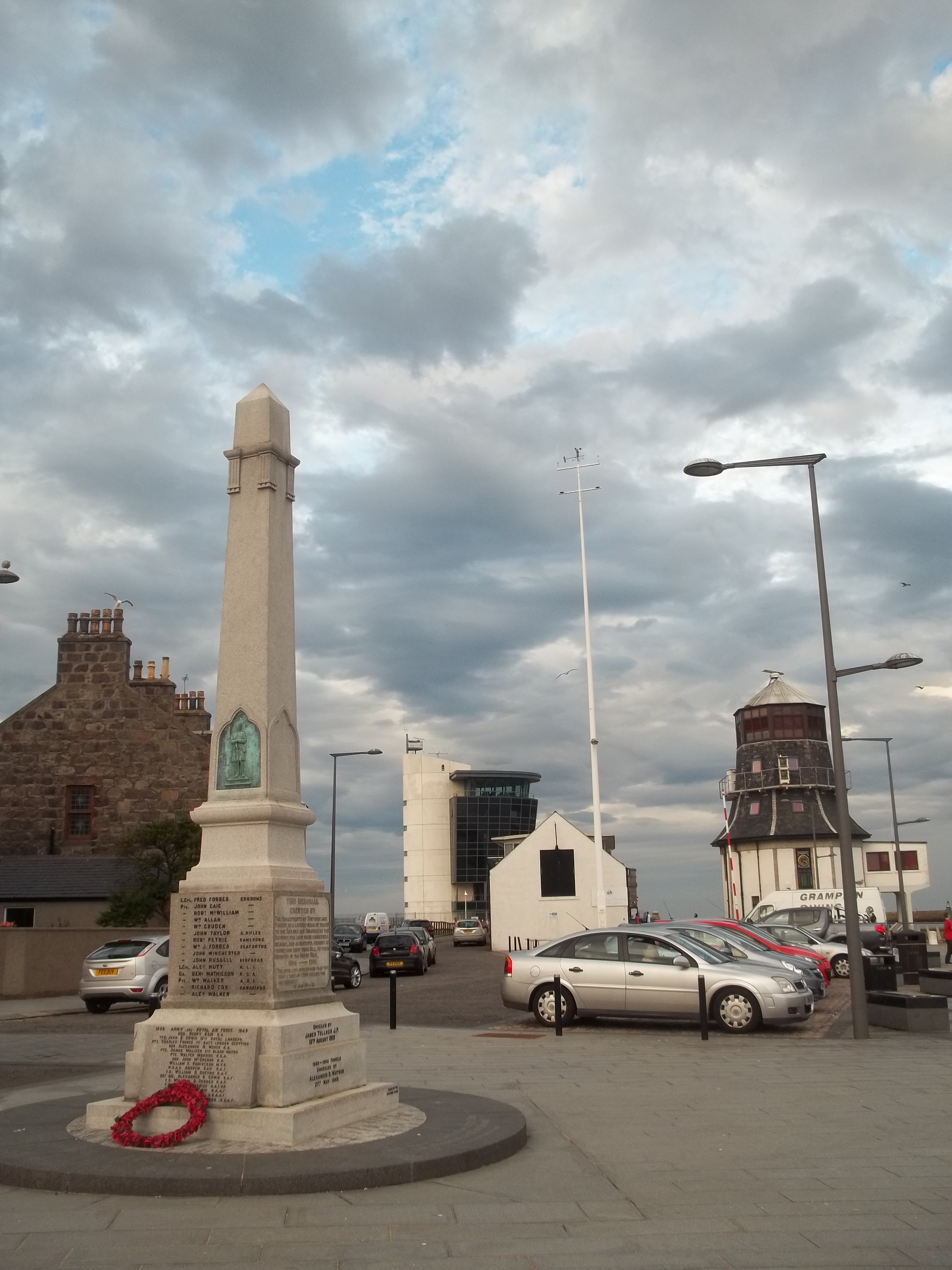 War Memorial at Pocra Quay with Marine Ops Centre in background, Footdee, Aberdeen Harbour